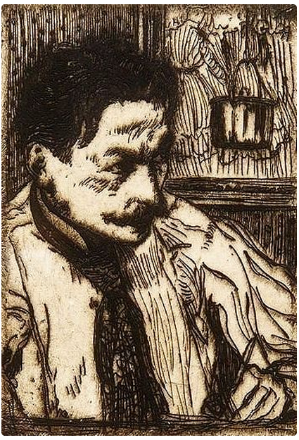 Self portrait of the Belgian artist Henri Evenepoel (1872-1899) : engraving (print).